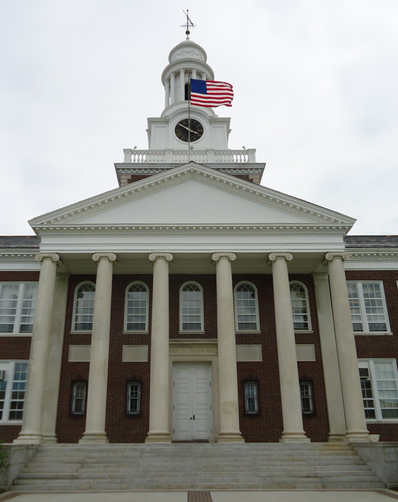 Campus view of The College of New Jersey or TCNJ, in Ewing, New Jersey.